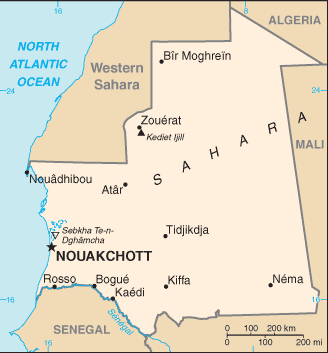 Map of Mauritania showing major cities.